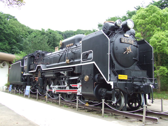 Series D51 "D51 408",Japan National Railway,Japan